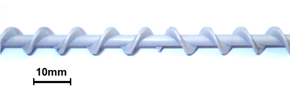 Archimedean screw, horizontal in laser printer for toner delivery.